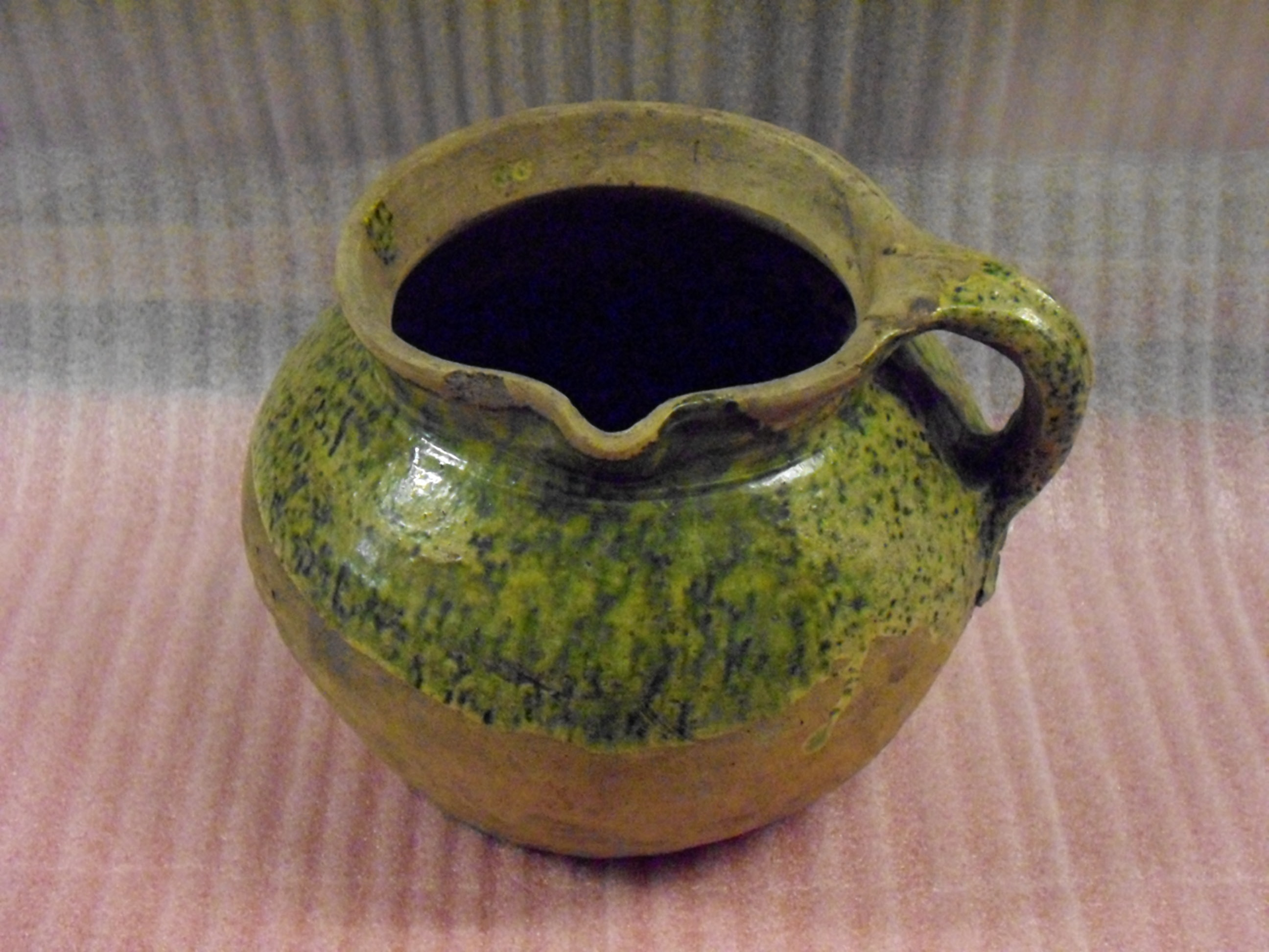 One handled cooking pot with copper speckled glaze on shoulder. Light sooting on exterior, dark grey staining on interior.